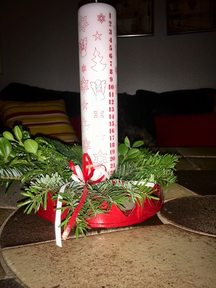 a candle marked with the days of December up to Christmas Eve.